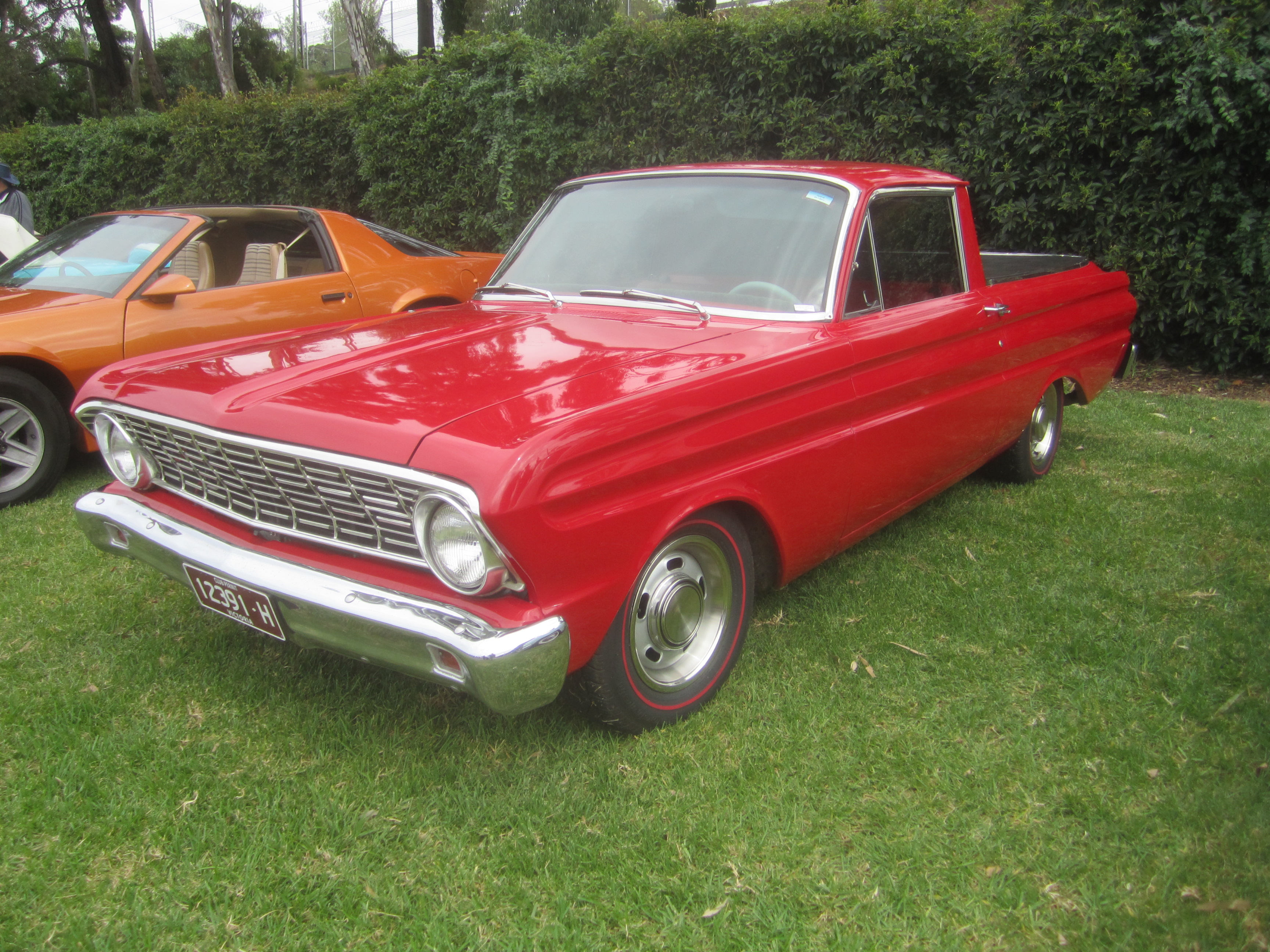 The Ranchero was a coupe utility produced between 1957 and 1979 Unlike a pickup truck, the Ranchero was adapted from a two-door station wagon platform. the 2nd generation (1960-65) was based on the Falcon. Engines; 170 6 cyl or 260 V8